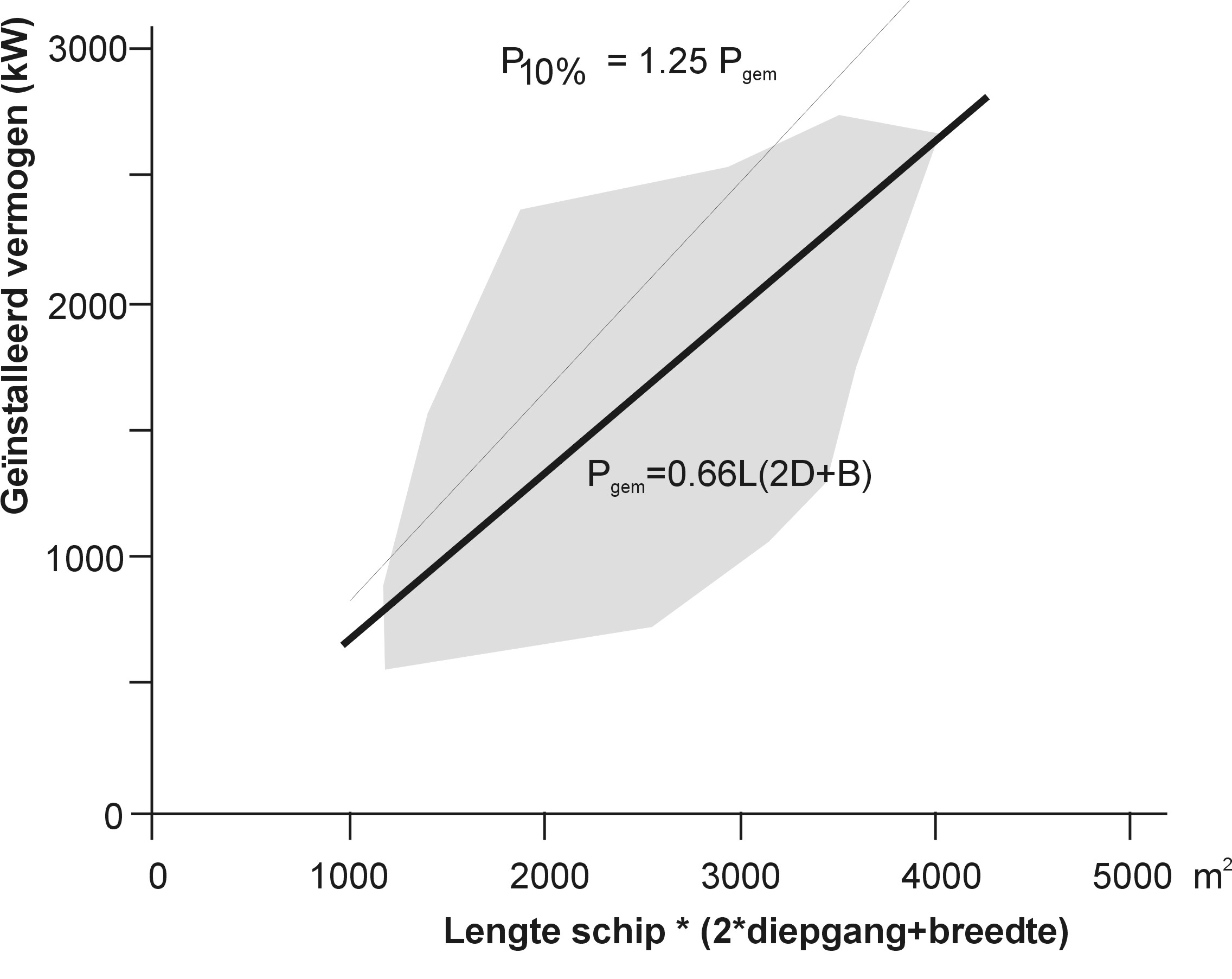 relation between ship power and ship dimensions; the gray area is the area where observations have been done.